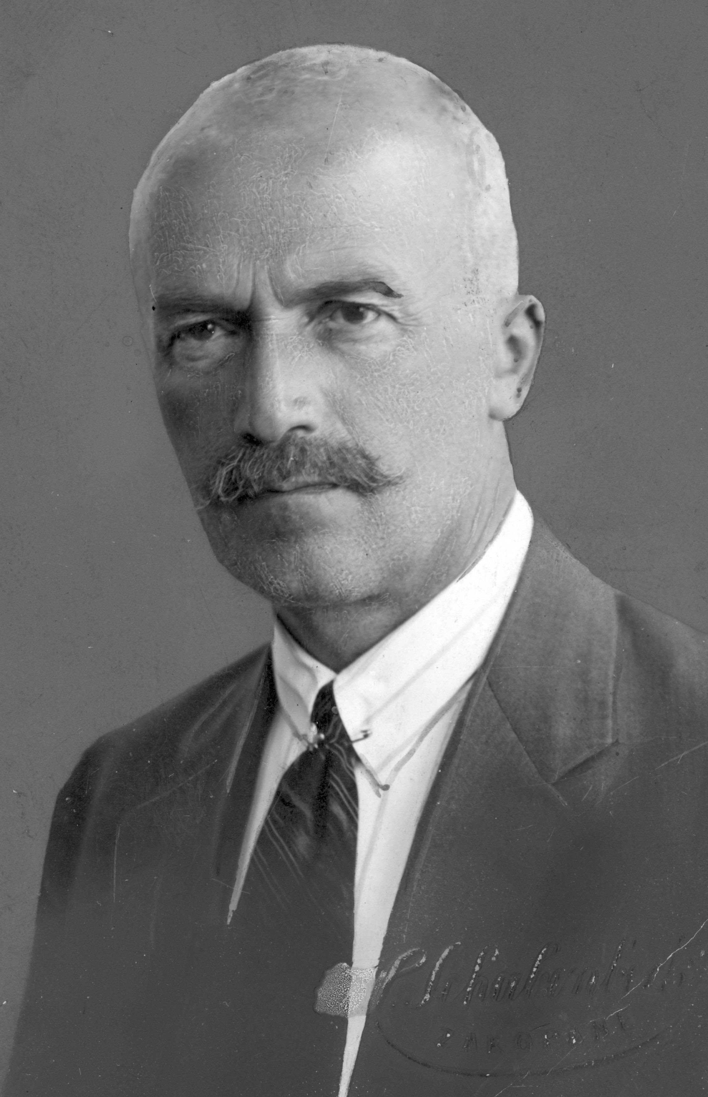 Eugeniusz Piaseccki - Polish physician, promotor of sports and hygiene and boyscouting activist. First chairman of Pogoń Lwów